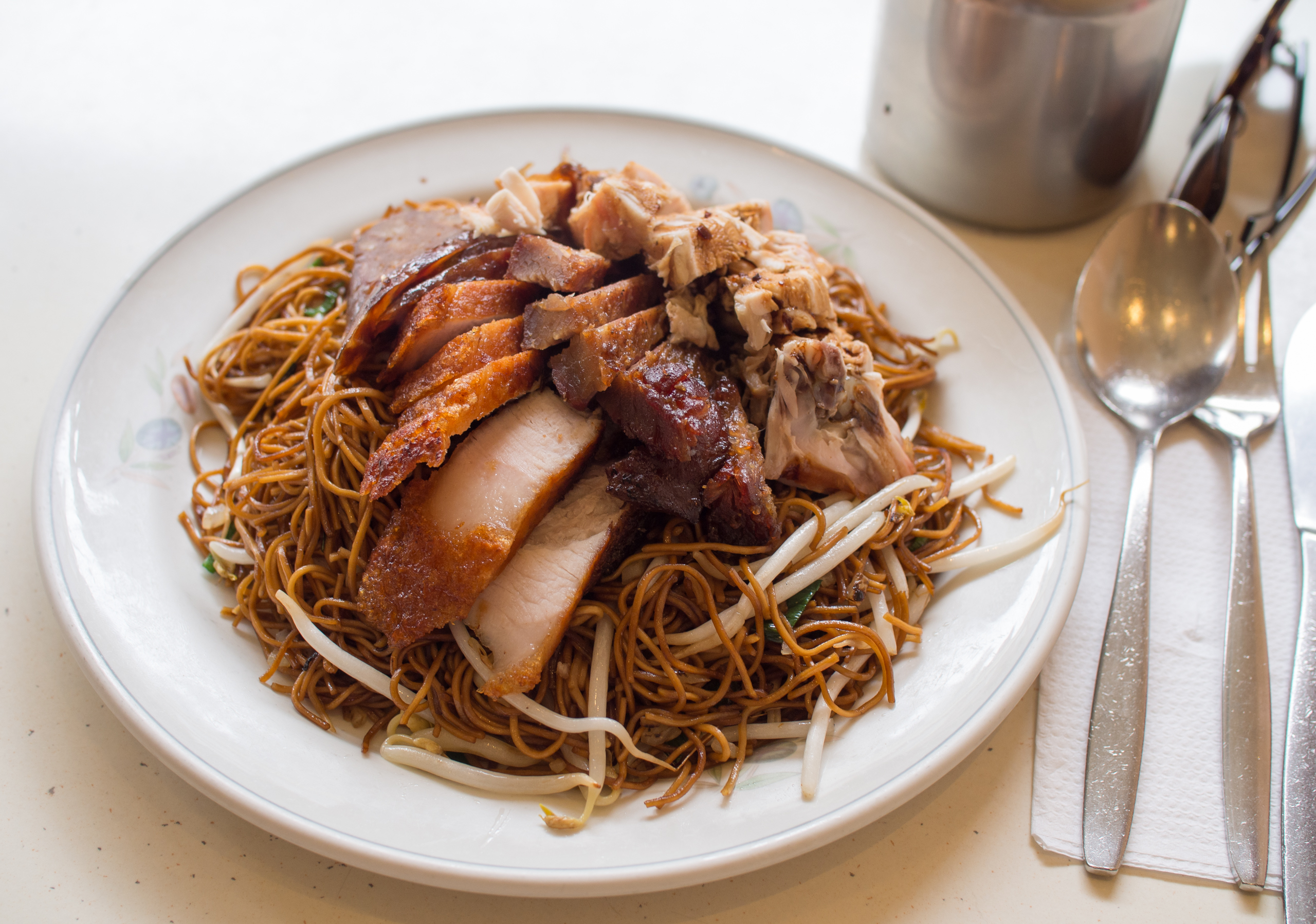 Tjauw min moksi meti speciaal at a Surinamese-Chinese eatery in Amsterdam. It is a dish of mixed Chinese meat dishes ("moksi meti" is Surinamese for "mixed meat"), consisting of cha siu, siu yuk, lap cheong, and Cantonese grilled chicken, served on egg noodles that have been stir-fried with bean sprouts, garlic and soy sauce (tjauw min is the Dutch spelling for chow mein). In this particular eatery, the speciaal (Dutch for "special") version contains the whole selection of grilled meats instead of just two in the normal version.